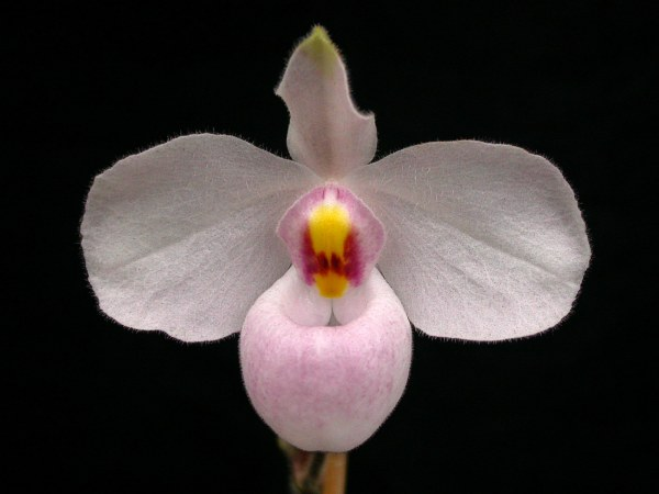 Paphiopedilum